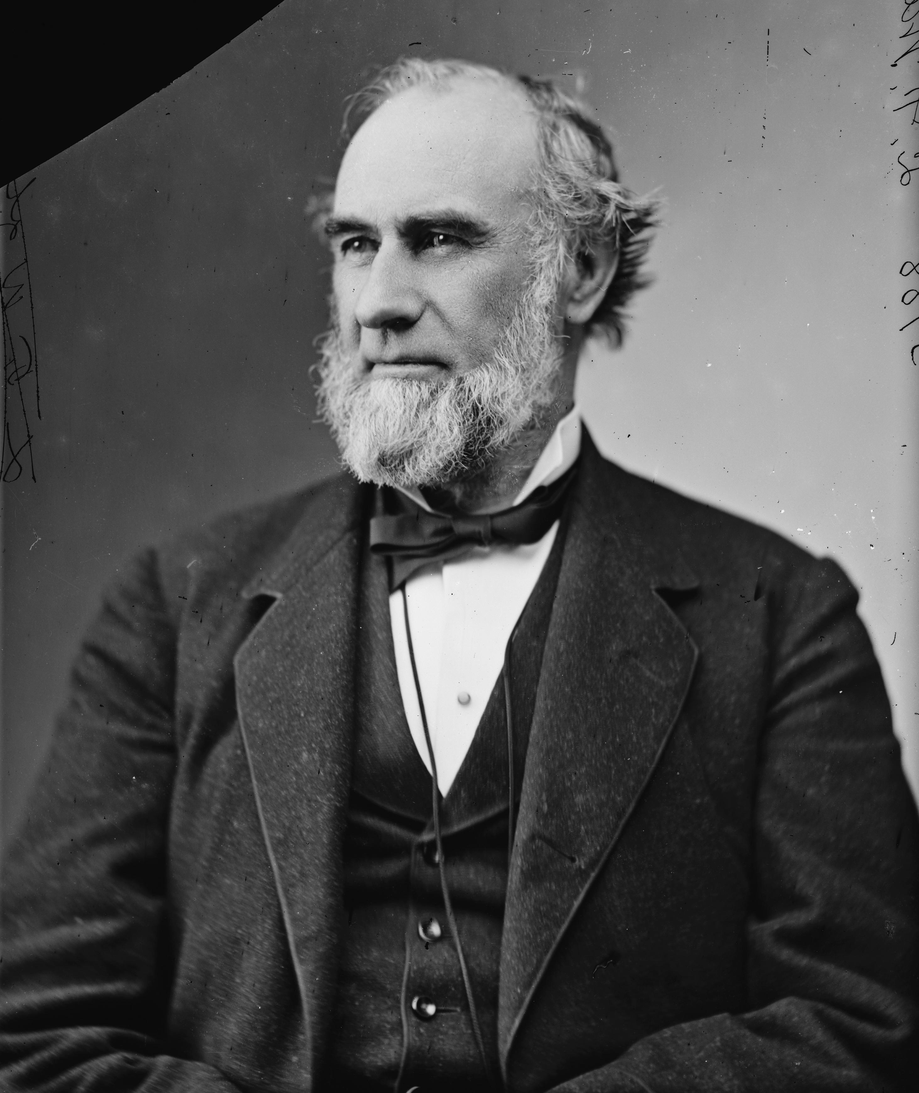 Lewis Findlay Watson. Library of Congress description: "Watson, Hon. Lewis Findlay of PA".